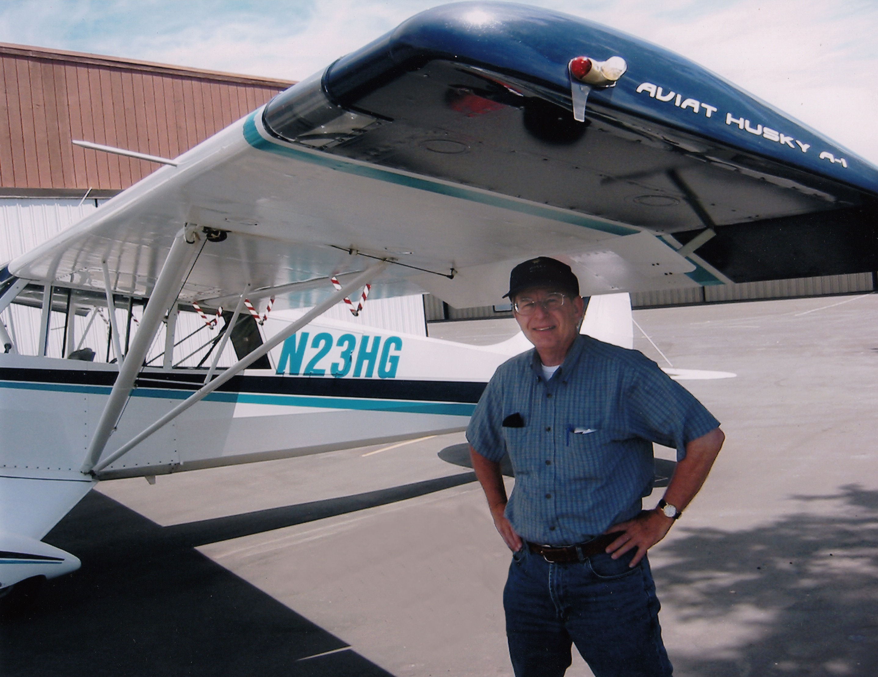 Harry T. Garland with his Aviat A-1 Husky Aircraft, registration N23HG, in 2004 at the Palo Alto, California Airport (KPAO)